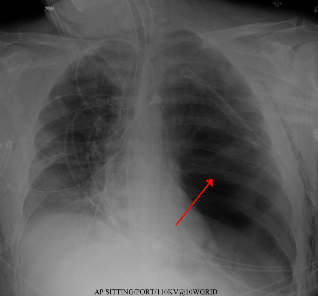 A tension pneumothorax